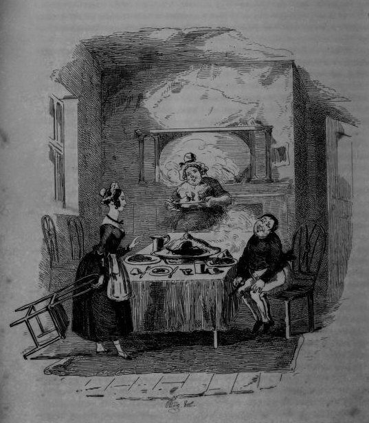 Hablot Knight Browne - The Pickwick Papers, The fat boy and Mary